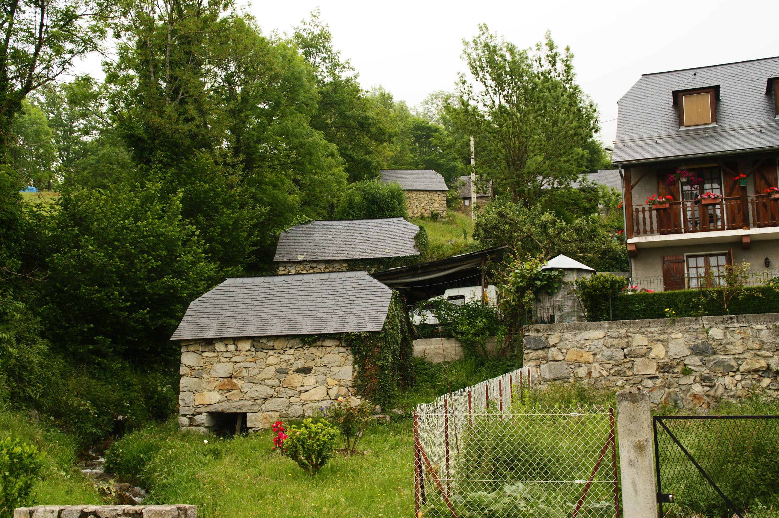 A series of Watermills in the valley d'Azun (Arcizans-Dessus) in the Hautes-Pyrénées. They run down the stream each owned by a different family & using the same stream.